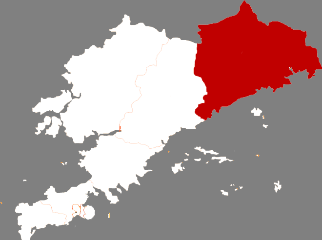 Location of Zhuanghe county-level city in Dalian City, China